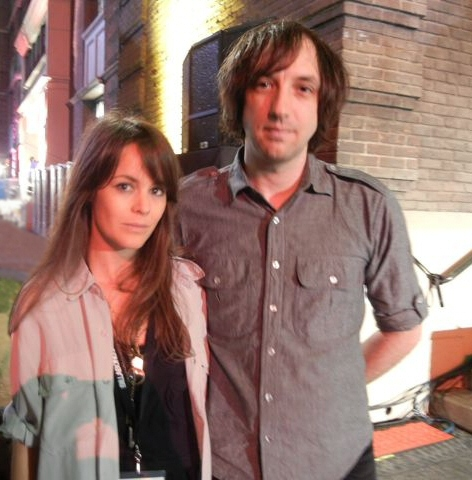 The Hundred in the Hands live at Ruby Lounge, Manchester (2010)